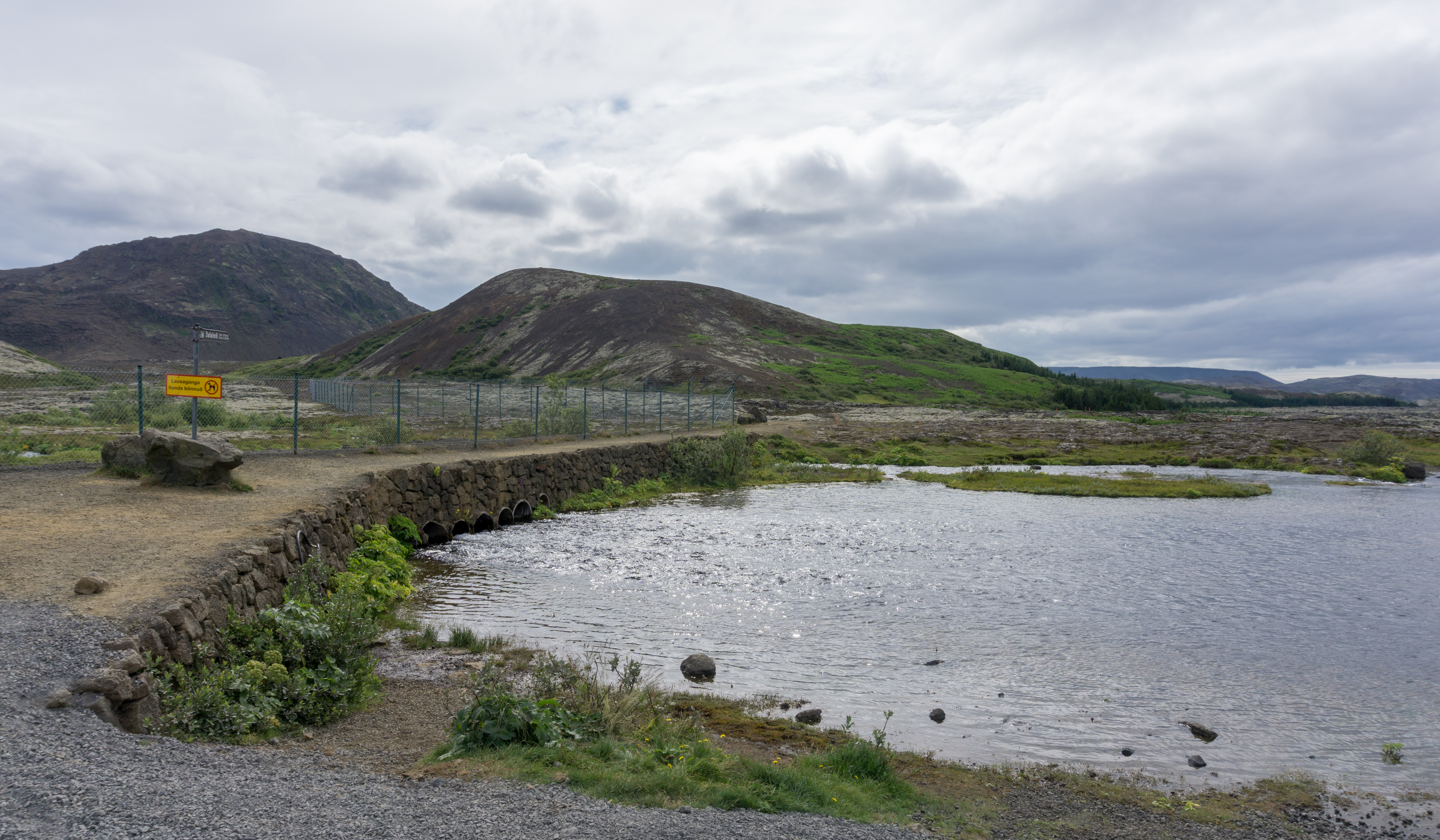 Lake Kaldá. Taken from the hiking trail Reykjavegur, Iceland